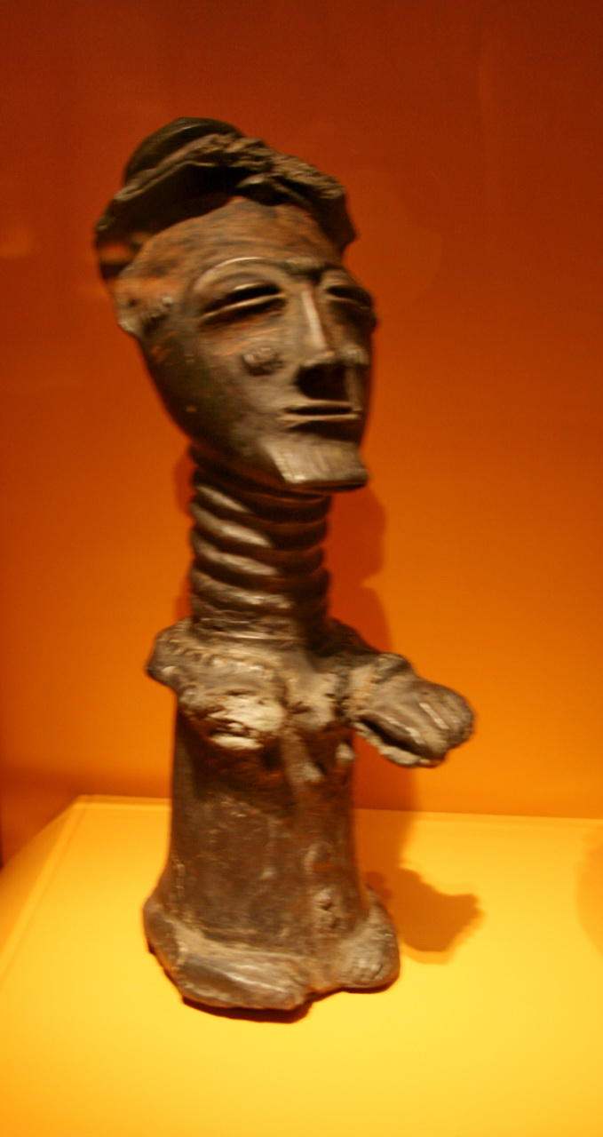 Memorial figure, Anyi peoples, Côte d'Ivoire, Early 20th century, Terracotta Certain Anyi groups honored their dead with portraits in terracotta. This particular one depicts a court musician grasping a flattened cylindrical gong in his left hand. His right hand probably once held a clapper now broken off. Because he was less important than the kings and queen mothers for whom he played in life, his memorial figure maintains this hierarchy to the grave by being smaller than a royal figure and by standing rather than sitting. (National Museum of African Art)